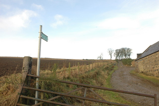 Public footpath to Wells Of Ythan Footpath leads off the public road at Mains of Bogfouton